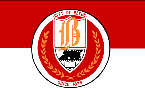 Flag of Beebe, Arkansas. Based on seeing the flag flying over war memorial in the city. (Dean Thomas).